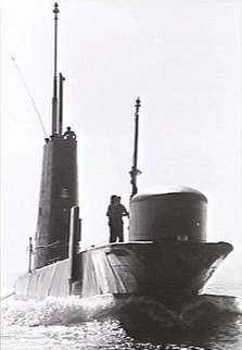 AWM caption: "BOW VIEW OF THE SUBMARINE HMAS ONSLOW. NOTE THE SONAR DOME. THE SHIP'S BADGE IS ON THE FRONT OF THE SAIL. THE SEARCH PERISCOPE AND RADIO MAST ARE EXTENDED." Cropped from the original to remove black borders and watermark.